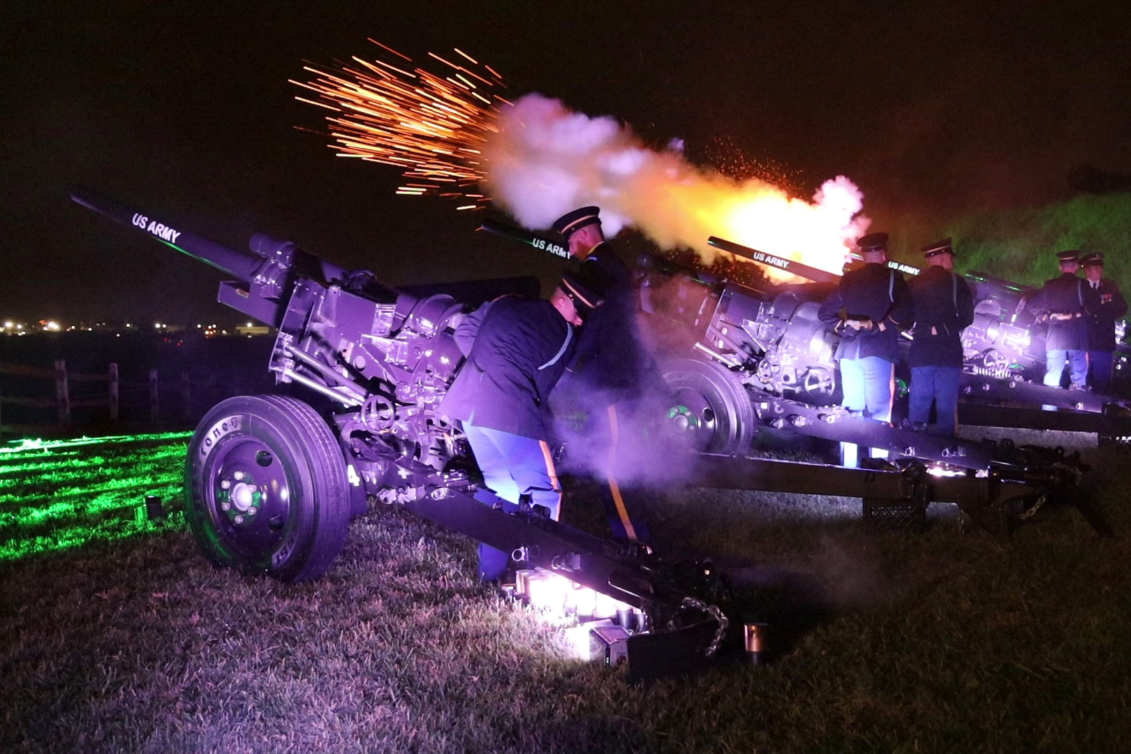 Soldiers from The 3d U.S. Infantry Regiment (The Old Guard) and The United States Army Field Band performed, helping to recreate and commemorate history. During the show 25 outstanding young Americans took the U.S. Army oath of enlistment, administered by Maj. Gen. Omar J. Jones IV, commanding general, Joint Force Headquarters - National Capital Region and the U.S. Army Military District of Washington. (U.S. Army photo by Sgt. Jacob Holmes)